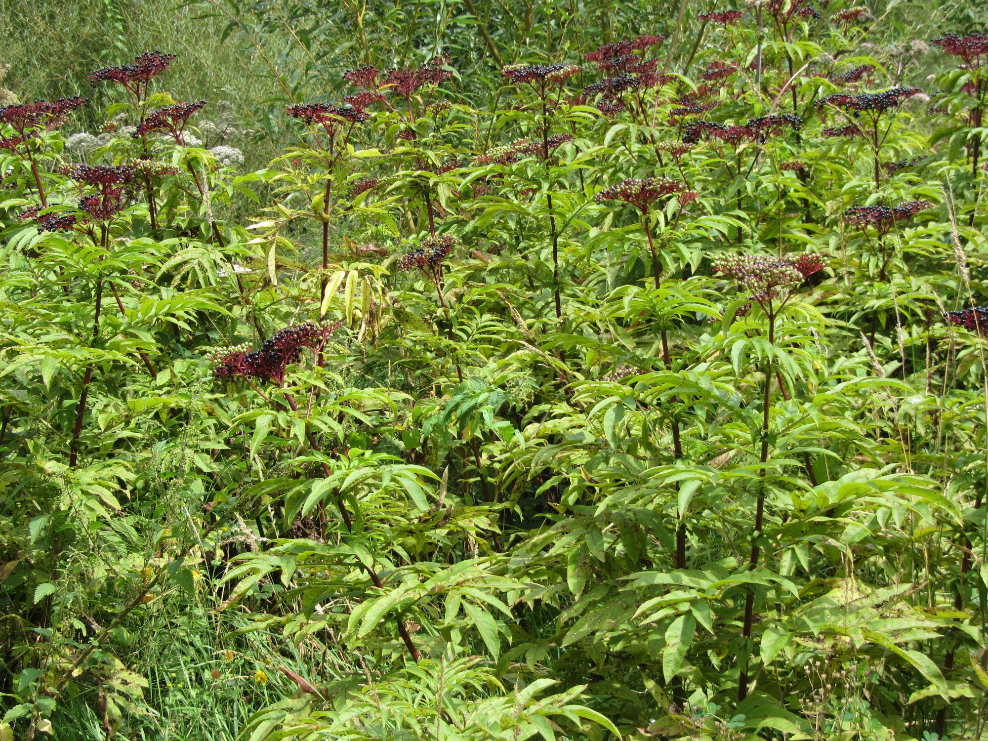 Sambucus ebulus. This photograph was taken on 2011-08-20 at Getxo in the Bizkaia province of the Basque Country (Europe), using a Canon PowerShot SX230 camera. The original size was 4000x3000 pixels, it was reduced to the present size (2000x1500 pixels) using the IrfanView freeware program.